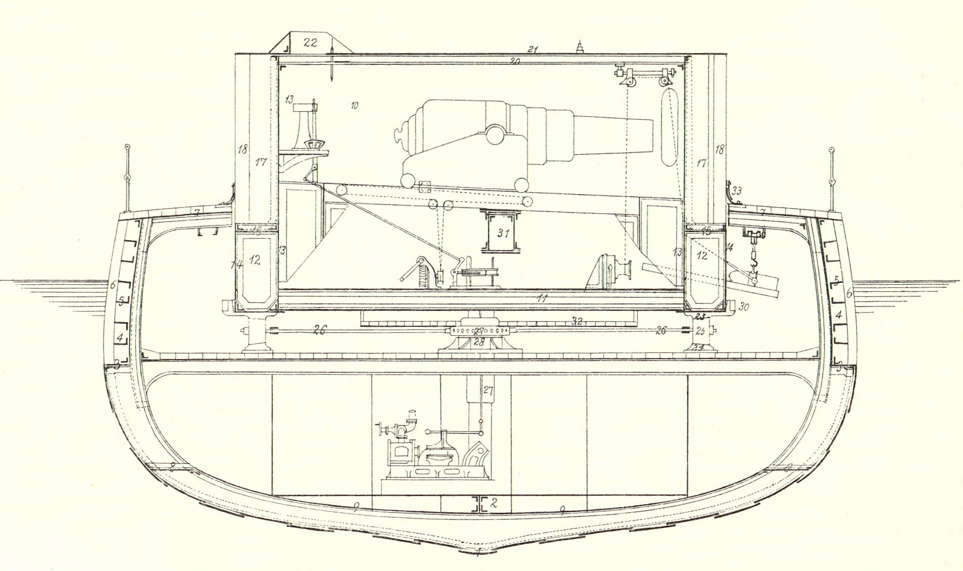 Turret of the Danish ironclad Gorm, launched in 1870. The turret is based on the design of RN Captain Cowper Coles.